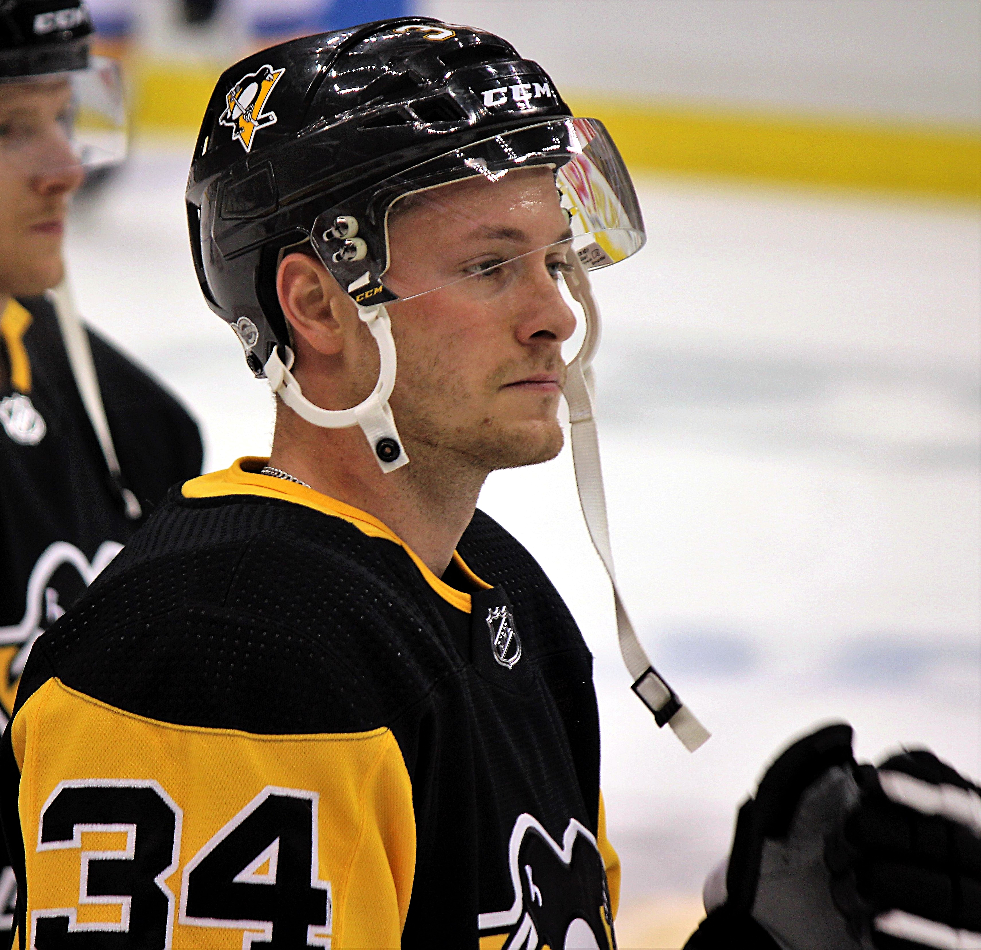 Pittsburgh Penguins forward Tom Kuhnhackl during a game against the St. Louis Blues, October 4, 2017, at PPG Paints Arena in Pittsburgh, PA.